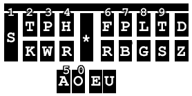 This is an image of the keyboard layout of the shorthand machine. I made this image, using Adobe® Photoshop® and the courier font.